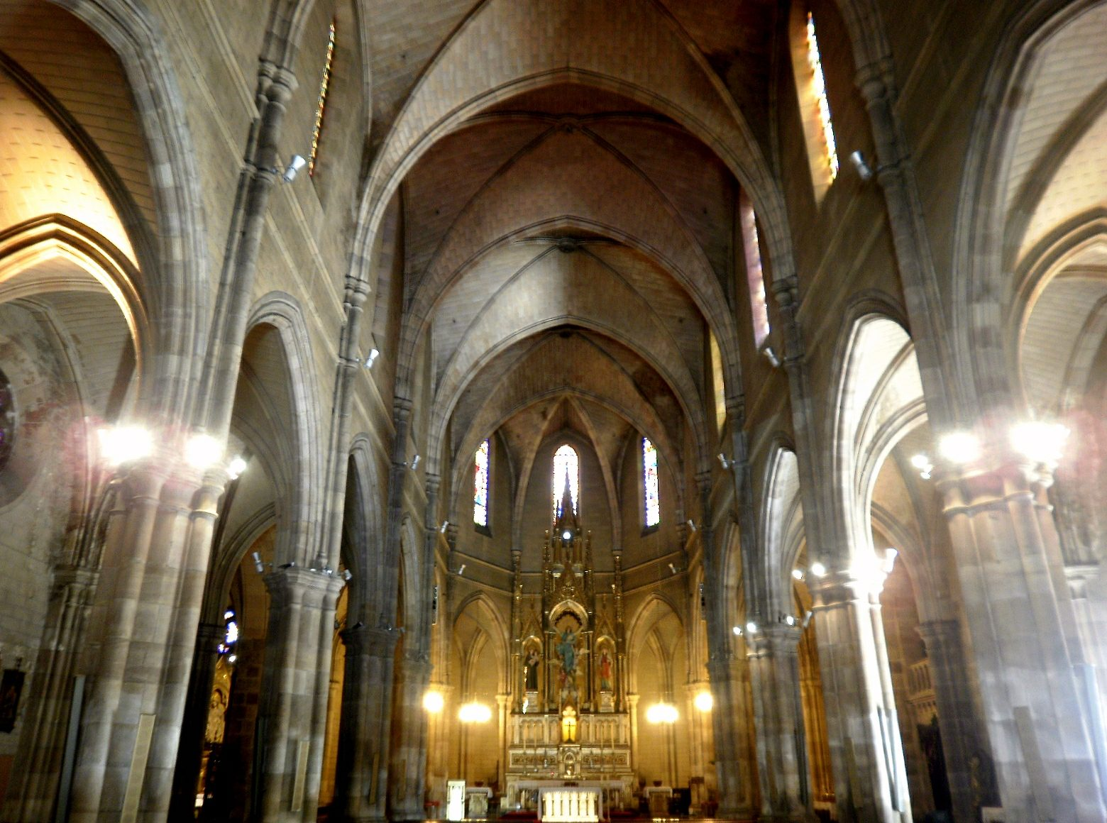 Iglesia de Nuestra Señora de la Asunción, Torrelavega (Cantabria, España)